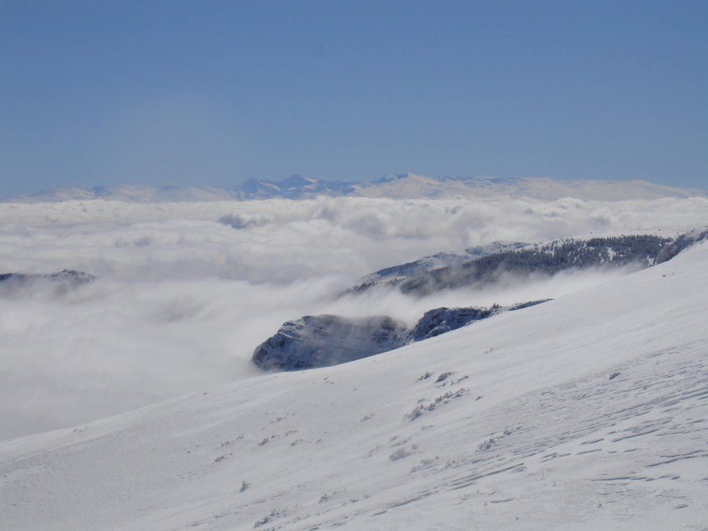 Mar de nubes y Sierra nevada al fondo desde la Pandera. The Sierra Nevada in the background seen from 1872 m high La Pandera, highest point of the Sierra Sur de Jaén